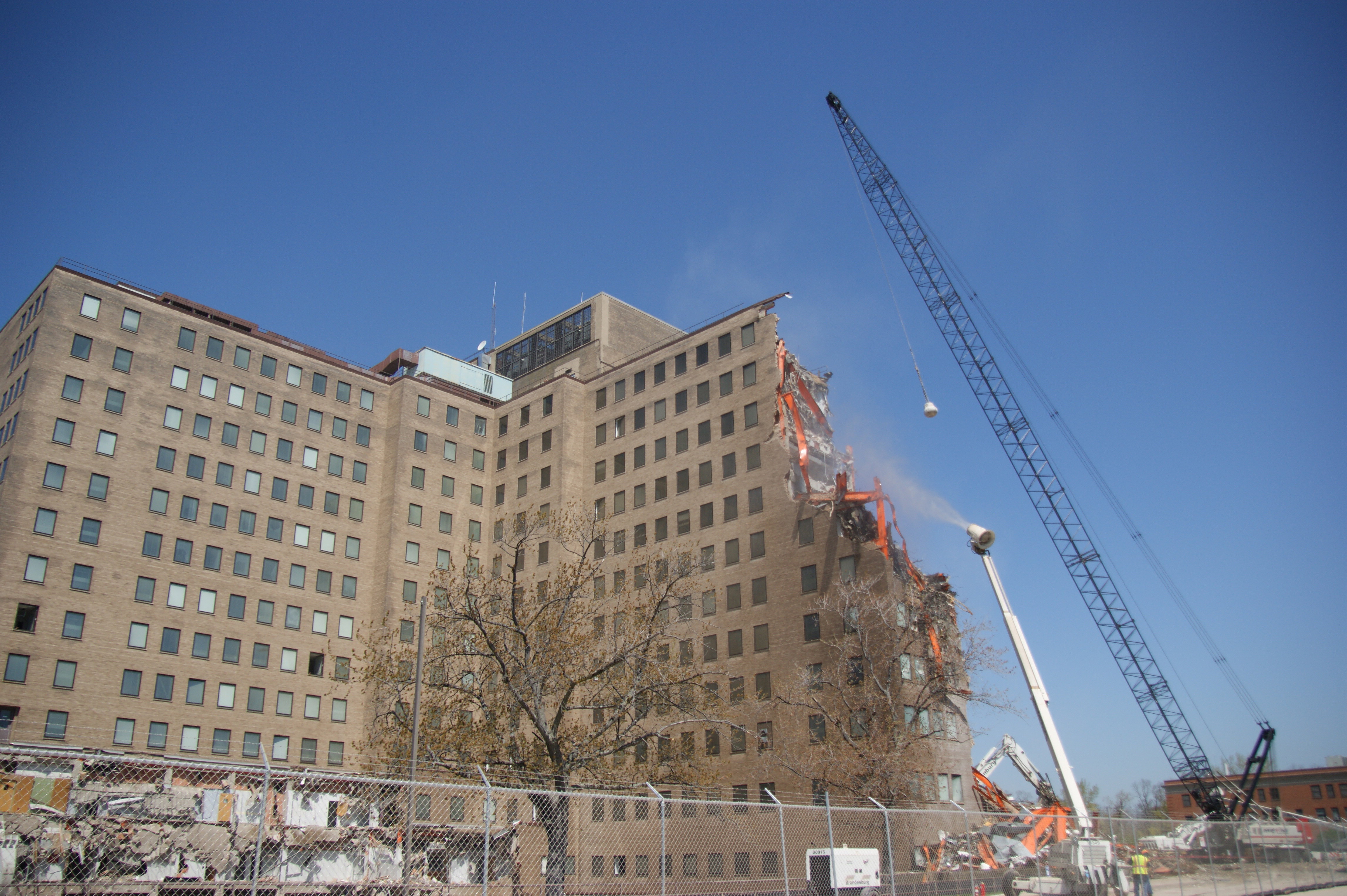 130514-N-HA320-015 GREAT LAKES, Ill. (May 14, 2013) A crane and wrecking ball demolish the 16-story former hospital building at Naval Station Great Lakes, Ill., which operated from 1960 to 2010. Demolishing this facility and its supporting structures is the last phase of the 2010 establishment of the Capt. James A. Lovell Federal Health Care Center, which supports Navy recruits, active-duty service members, family members and veterans.